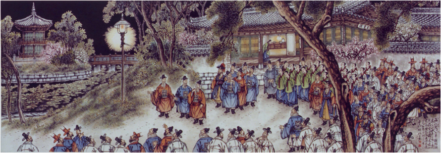 Reproduction of a painting by Geumchoo Nam-ho Lee depicting the first electric light being turned on at Gyeongbok Palace in Seoul in 1887